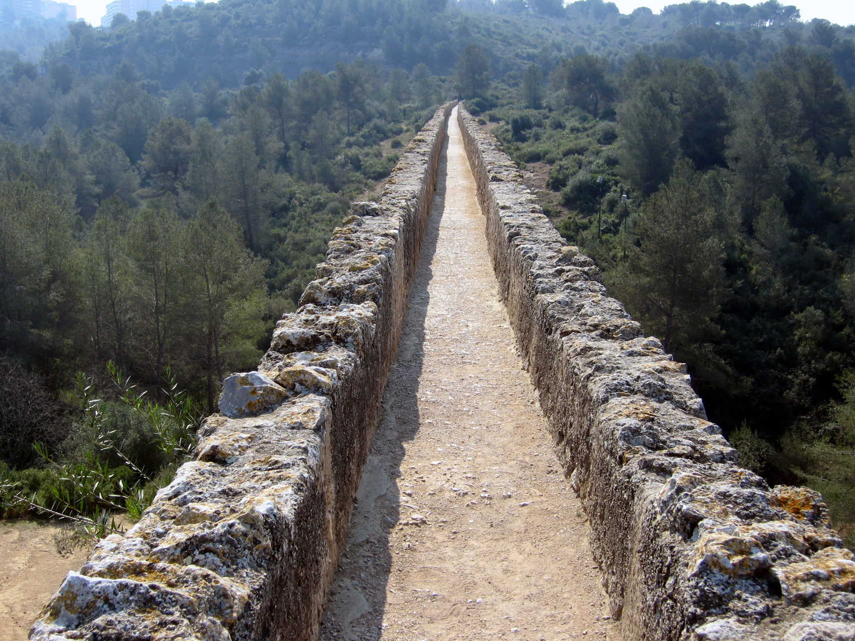 Detail of the “Aqüeducte de les Ferreres” near Tarragona (Catalonia).